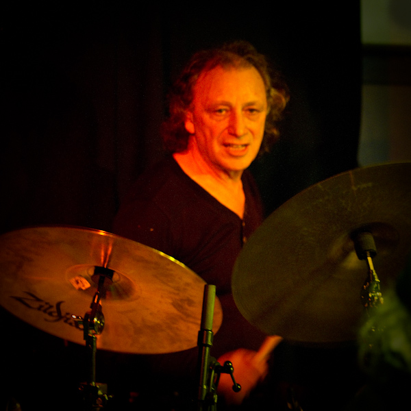 Pierre van der Linden in a concert of rockband Focus on February the 26th in Wageningen, The Netherlands.